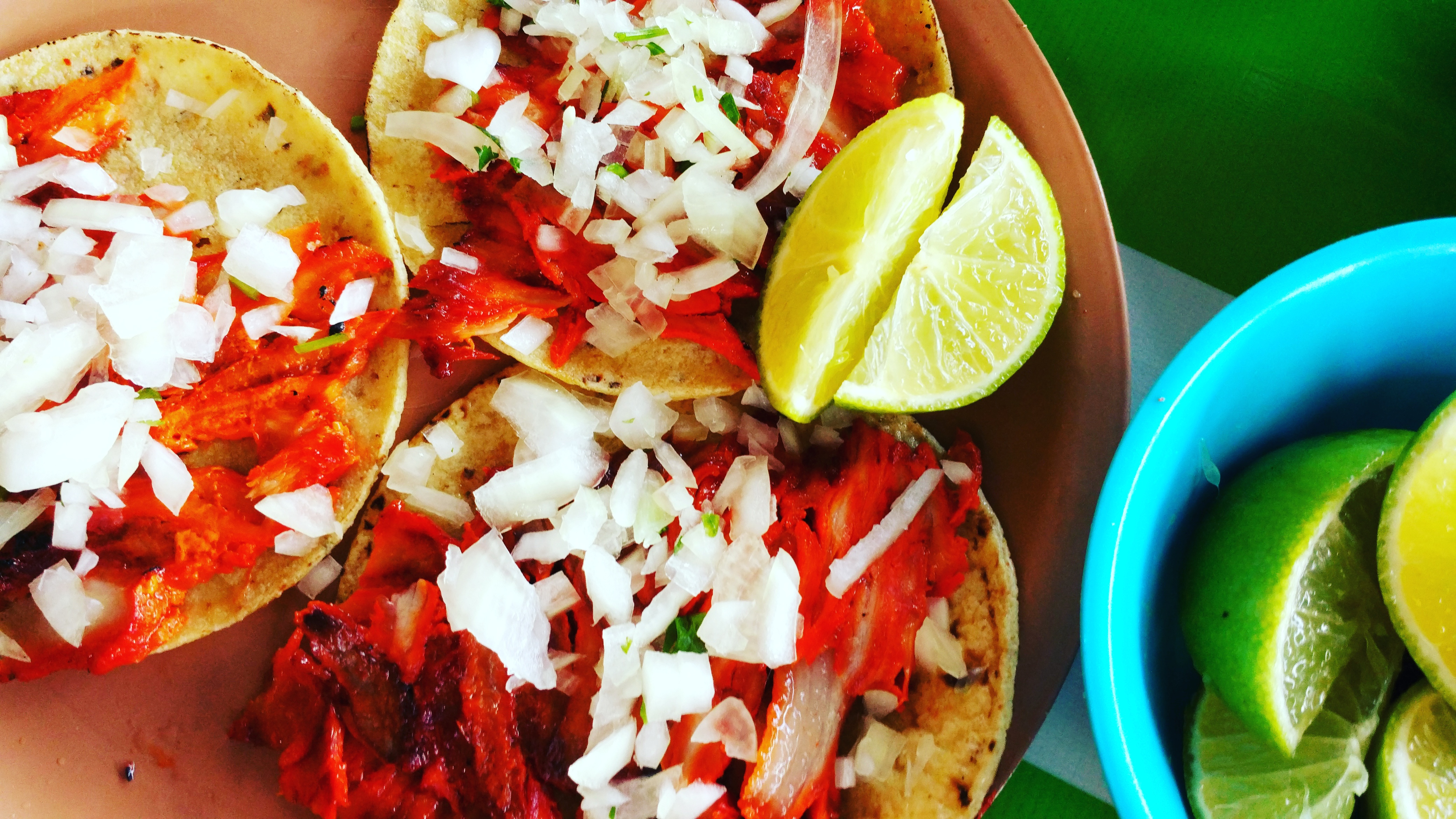 tacos with pork meat (al pastor)